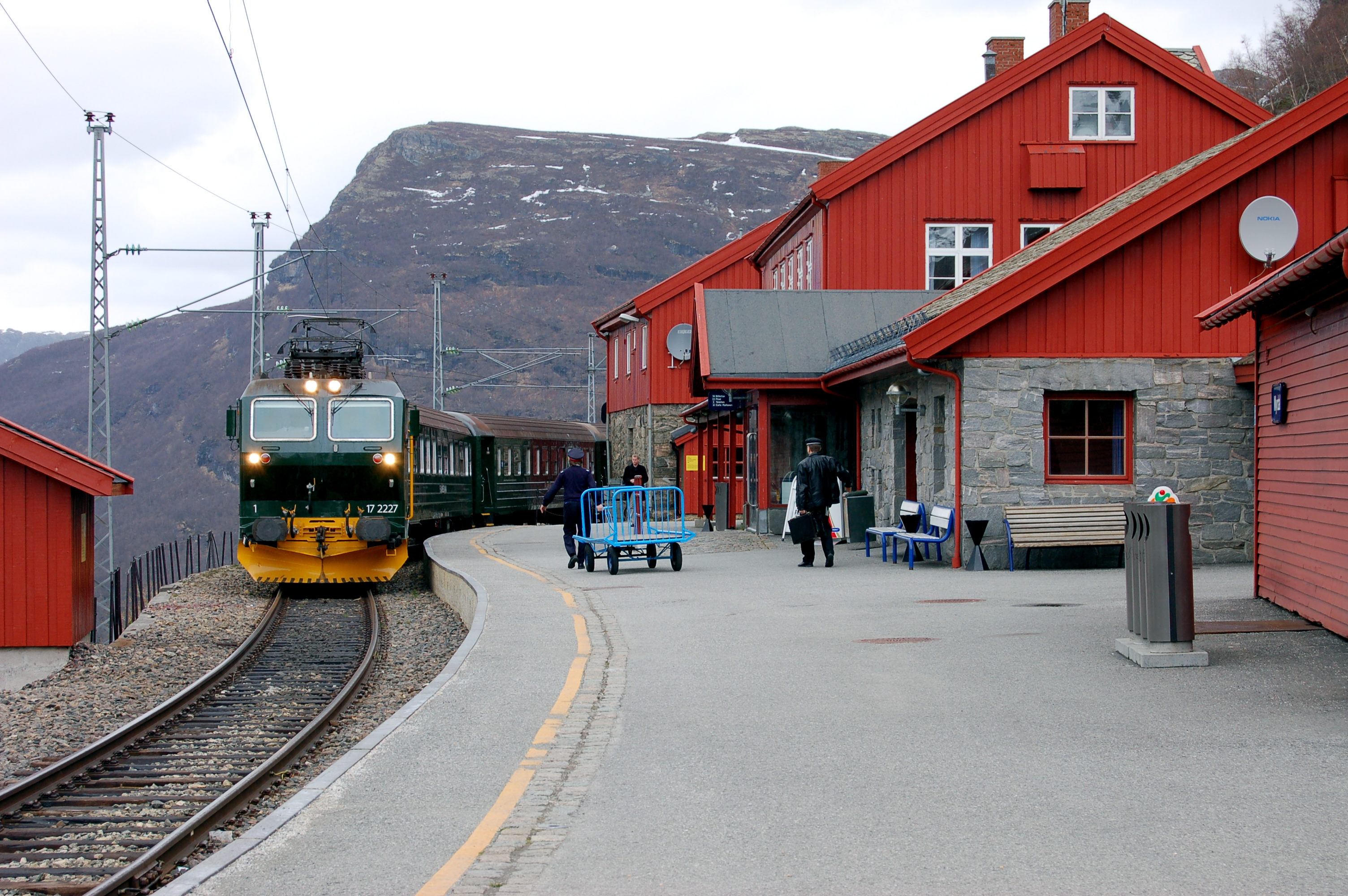 Myrdal Station on Bergensbanen and Flåmsbana, Aurland, Norway.